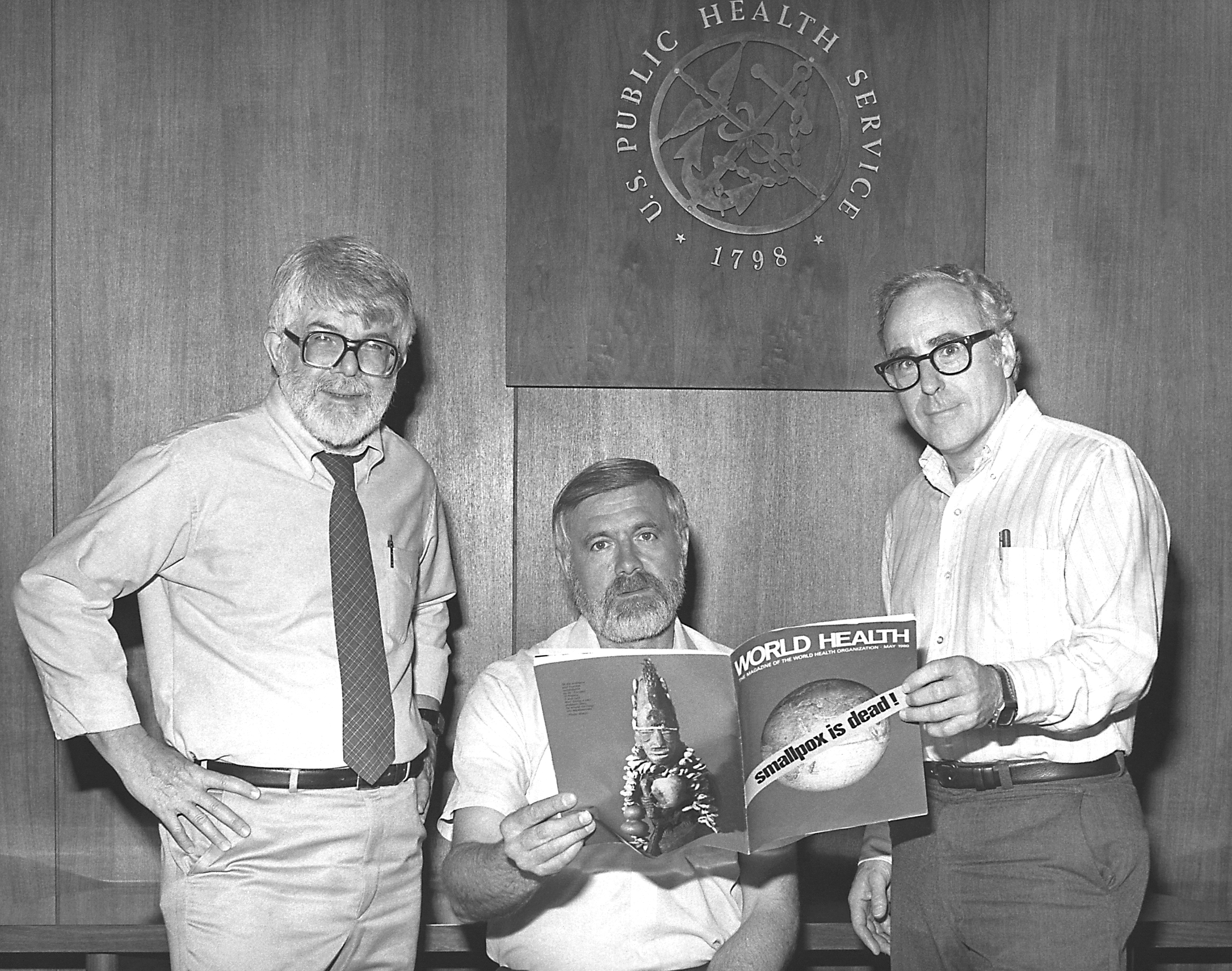 This 1980 photograph taken at the Centers for Disease Control, depicted three former directors of the Global Smallpox Eradication Program as they read the good news that smallpox had been eradicated on a global scale. From left to right, Dr. J. Donald Millar, who was Director from 1966 to 1970; Dr. William H. Foege, who was Director from 1970 to 1973, and Dr. J. Michael Lane, who was Director from 1973 to 1981. The worldwide eradication of this dreaded virus was due to the Smallpox Eradication Campaign of the late 1960’s, early 1970s, whereupon, a mass-vaccination program was instituted across the globe that lead to the declaration in 1978 by a global commission that smallpox had been eradicated, which was officially accepted by the 33rd World Health Assembly in 1980.